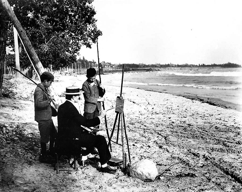 Photograph of Owen Staples, RCA, painting at Sunnyside Beach in 1907. Toronto, Canada.